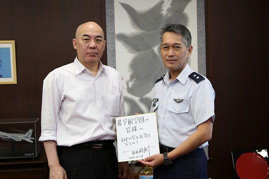 Naoki Hyakuta, television writer, met Kiyoaki Kawanami, Commander of the 9th Air Wing, Southwestern Air Defense Force, Air Defense Command, Air Self-Defense Force, at Naha Airbase, Air Self-Defense Force in Naha City, Okinawa Prefecture on October 29, 2017.